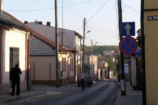 Pilsudski Street, Wolbrom, Poland